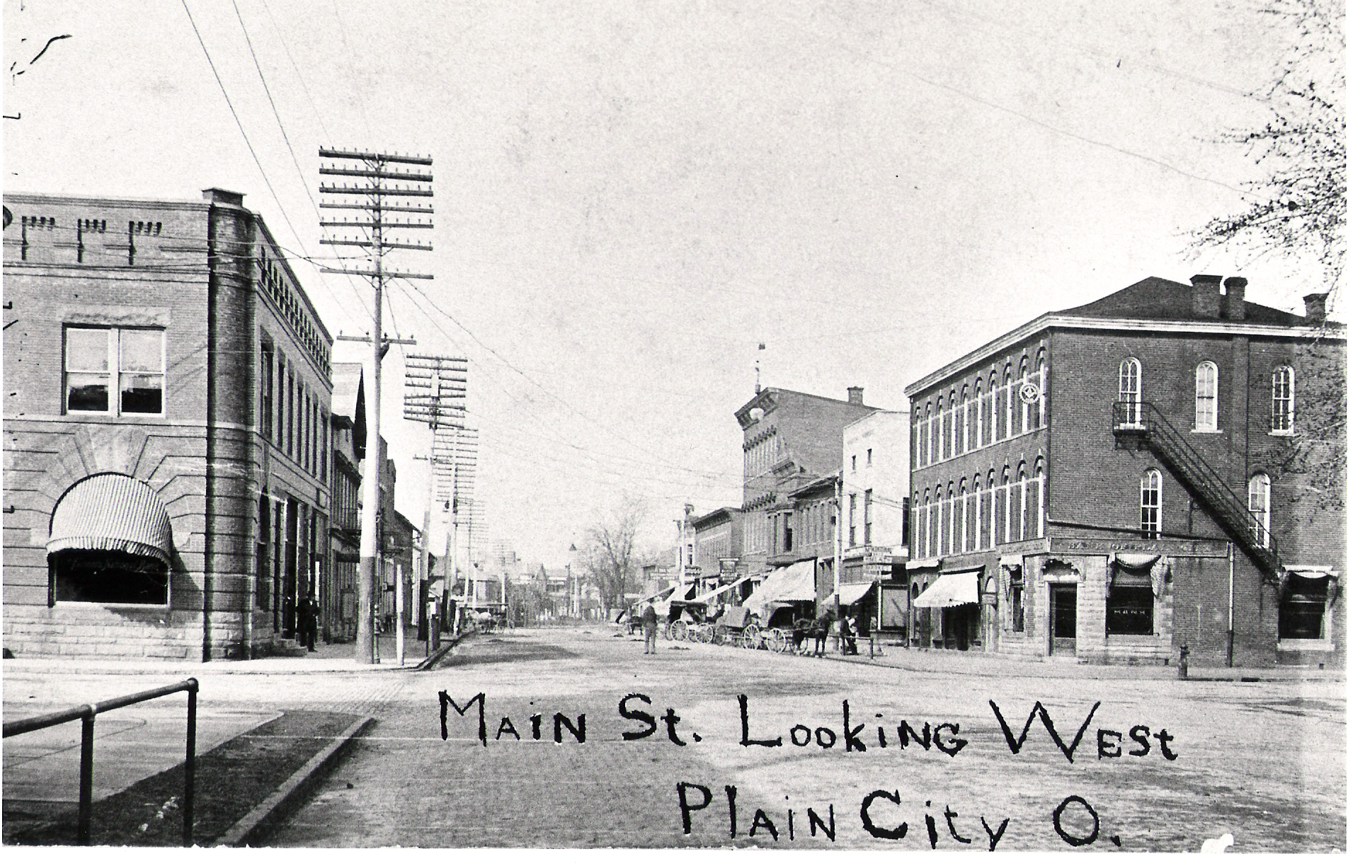 A 1906 photo of West Main Street, Plain City, Ohio. Taken by Henry Wenzel. This photo appeared in the November 21, 1906 issue of the Plain City Advocate. Farmers National Bank (Plain City, Ohio) is on the left side of the photograph, and on the right side is The Bank of Plain City. Released into the public domain by Plain City Historical Society.